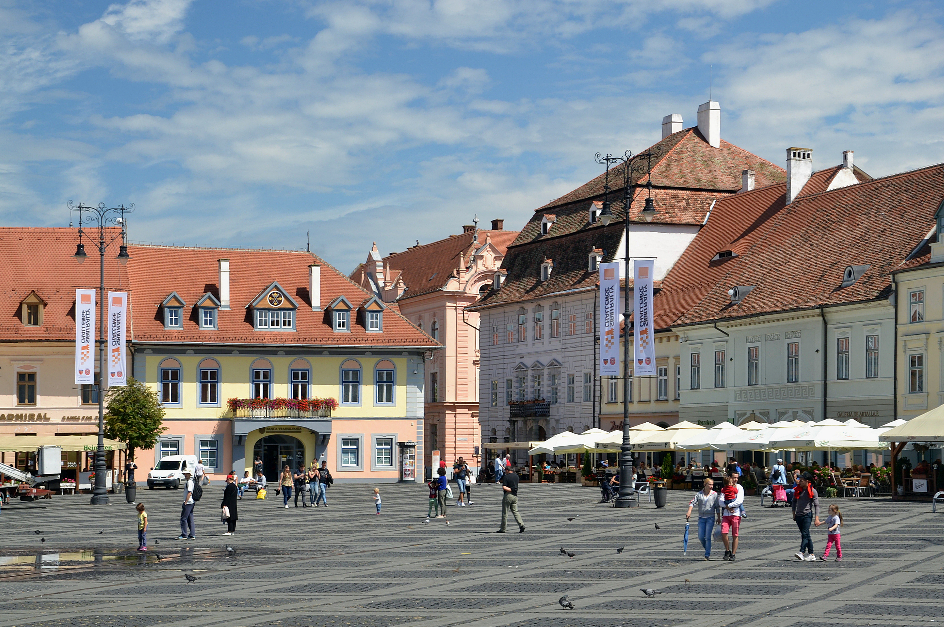 Sibiu (Hermannstadt, Nagyszeben), Romania - Large Square (Piața Mare, Großer Ring)